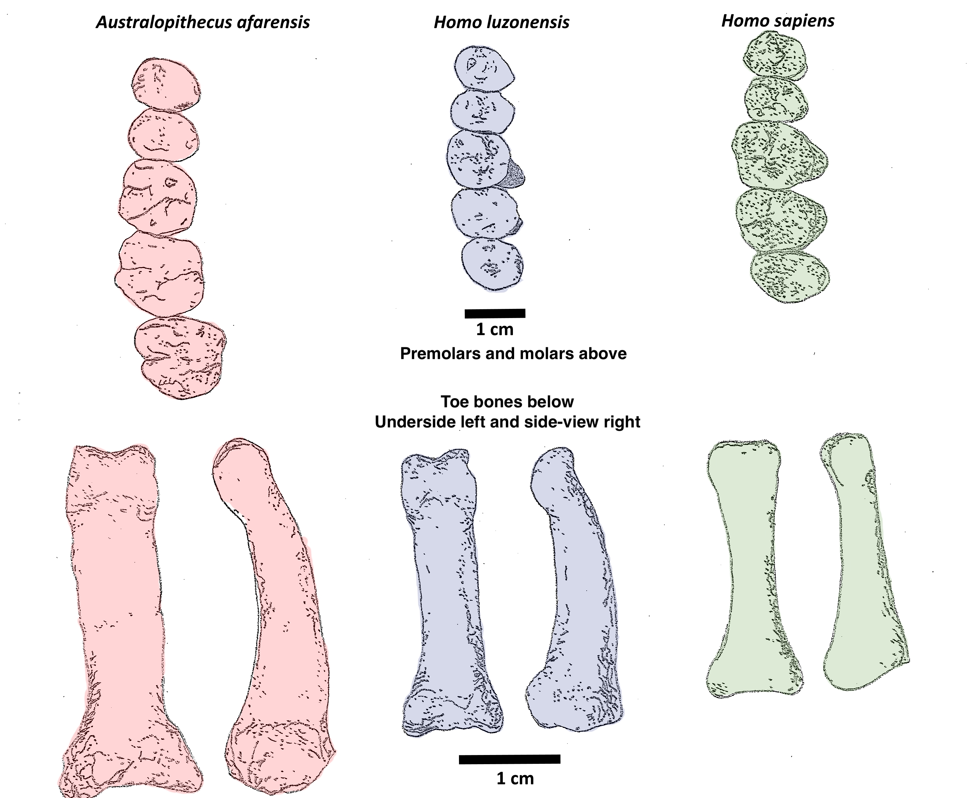 Surface structure of the holotype CCH6a-e of Homo luzonensis and of the foot bone middle limb CCH4 in comparison with Australopithecus afarensis and Homo sapiens. The sketch is based on the 3D surface scans of Détroit F u.a. (2019): A new species of Homo from the Late Pleistocene of the Philippines. In Nature 568 (7751): 181–186.